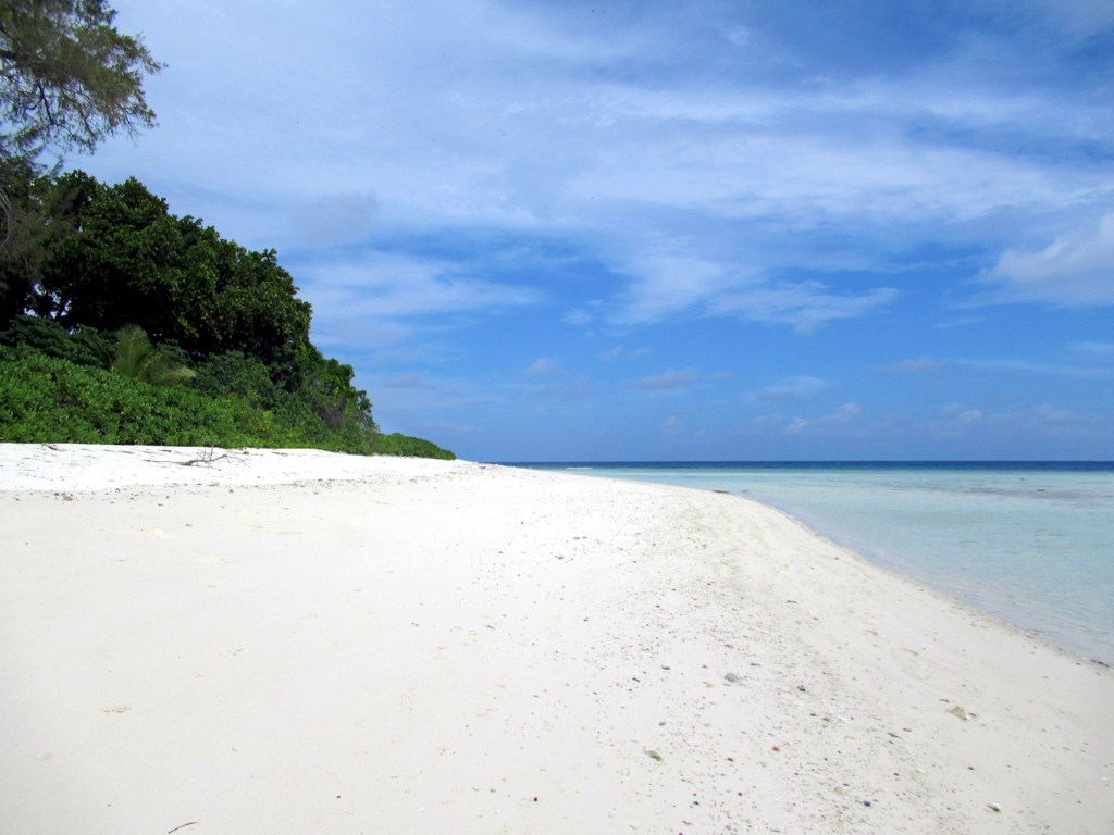 D'Arros Island in the Amirantes Group, 250 kilometers southwest of the main Seychelles Group, has a fine white beach along its north shore.